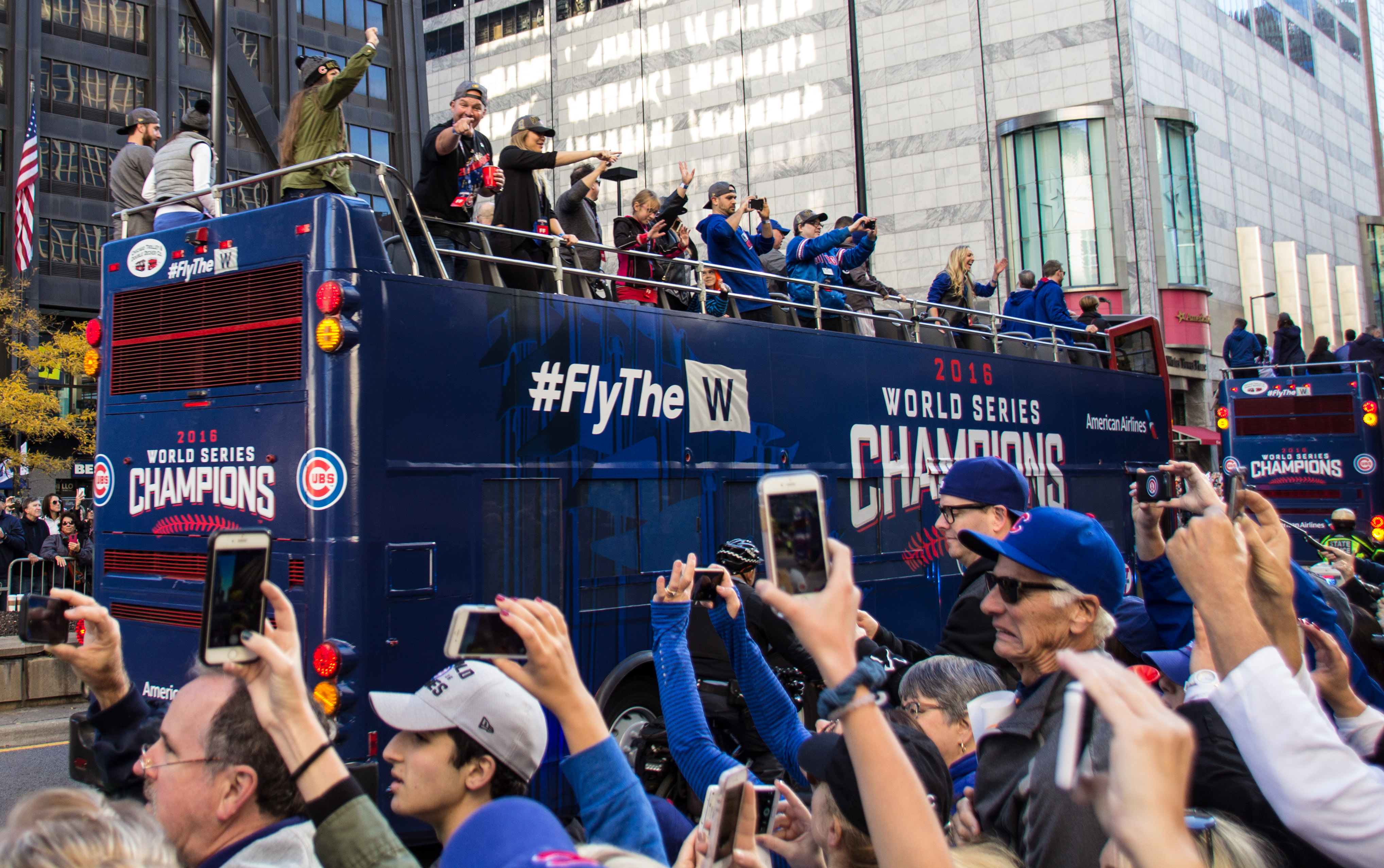 Cubs World Series Victory Parade